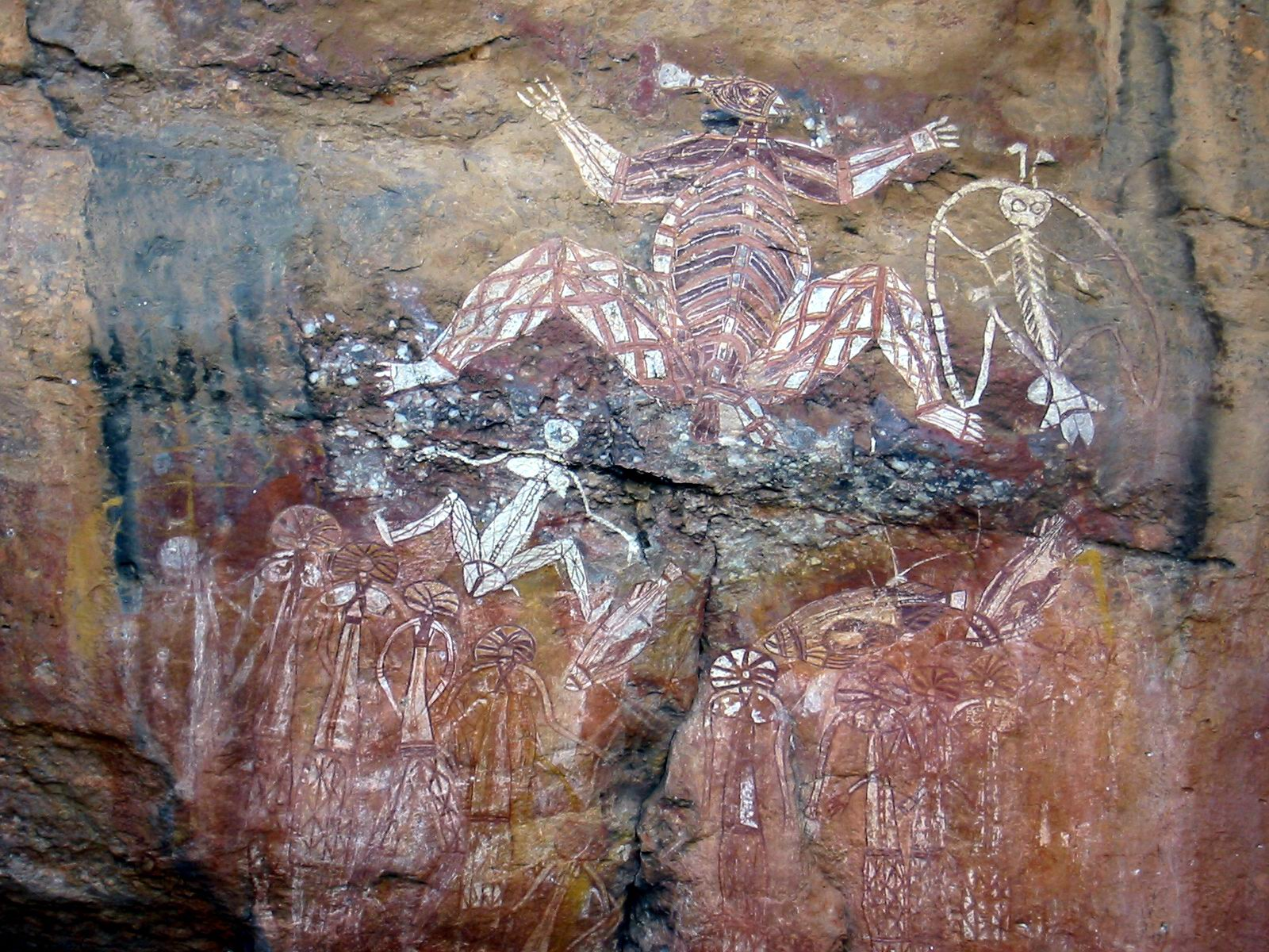 Aboriginal Rock Art, Anbangbang Rock Shelter, Kakadu National Park, Australia According to .au, it shows Namondjok, a Creation Ancestor, with his wife Barrginj below, the Lightning Man Namarrgon to the right, and a group of men and women with ceremonial headdresses underneath. These Spirit figures were repainted between 1962 and 1964, the last major rock painting at the Anbangbang Art site in Nourlangie Rock.